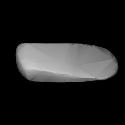 3D convex shape model of 1192 Prisma, computed using light curve inversion techniques. J. Hanuš, J. Ďurech, M. Brož, B. D. Warner (June 2011). "A study of asteroid pole-latitude distribution based on an extended set of shape models derived by the lightcurve inversion method". Astronomy and Astrophysics 530: A134. ISSN 0004-6361. arXiv